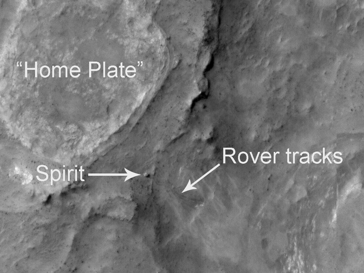 This image shows the location of MER Spirit on 29 September 2006. Toward the top of the image is "Home Plate," a plateau of layered rocks that Spirit explored during the early part of its third year on Mars. Spirit itself is clearly seen just southeast of Home Plate. Also visible are the tracks made by the rover before it arrived at its current location. Image was taken by the Mars Reconnaissance Orbiter's HiRISE instrument.